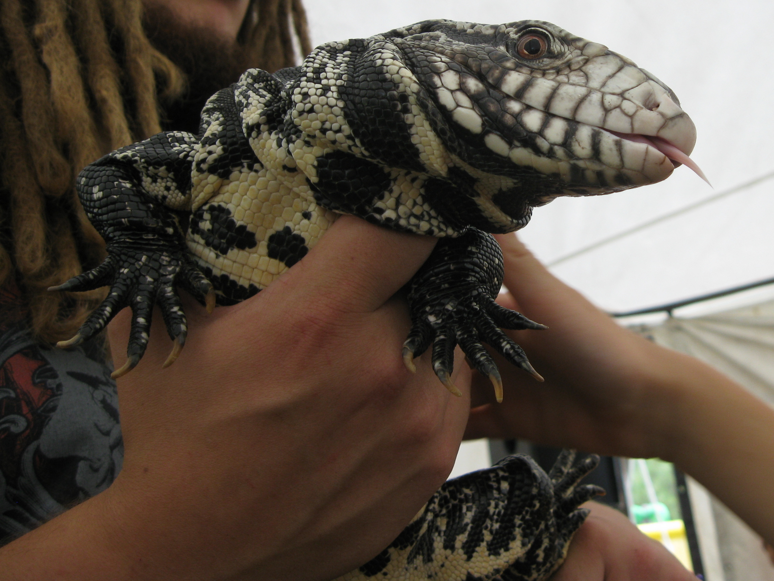 Argentine Black & White Tegu